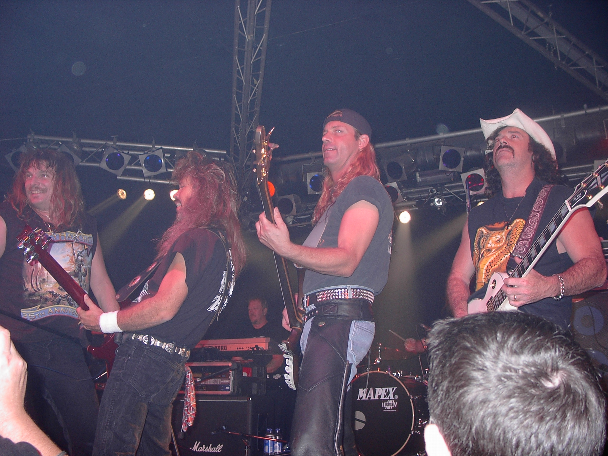 Molly Hatchet at Biebob (Vosselaar, Belgium), November 7, 2003 This picture was taken after Danny Joe Brown (Original Vocalist)& Doc Forrester (Lead Guitarist) had left the band.